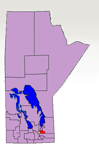 The last boundaries for the soon to be defunct electoral district of Springfield from 1998-2011